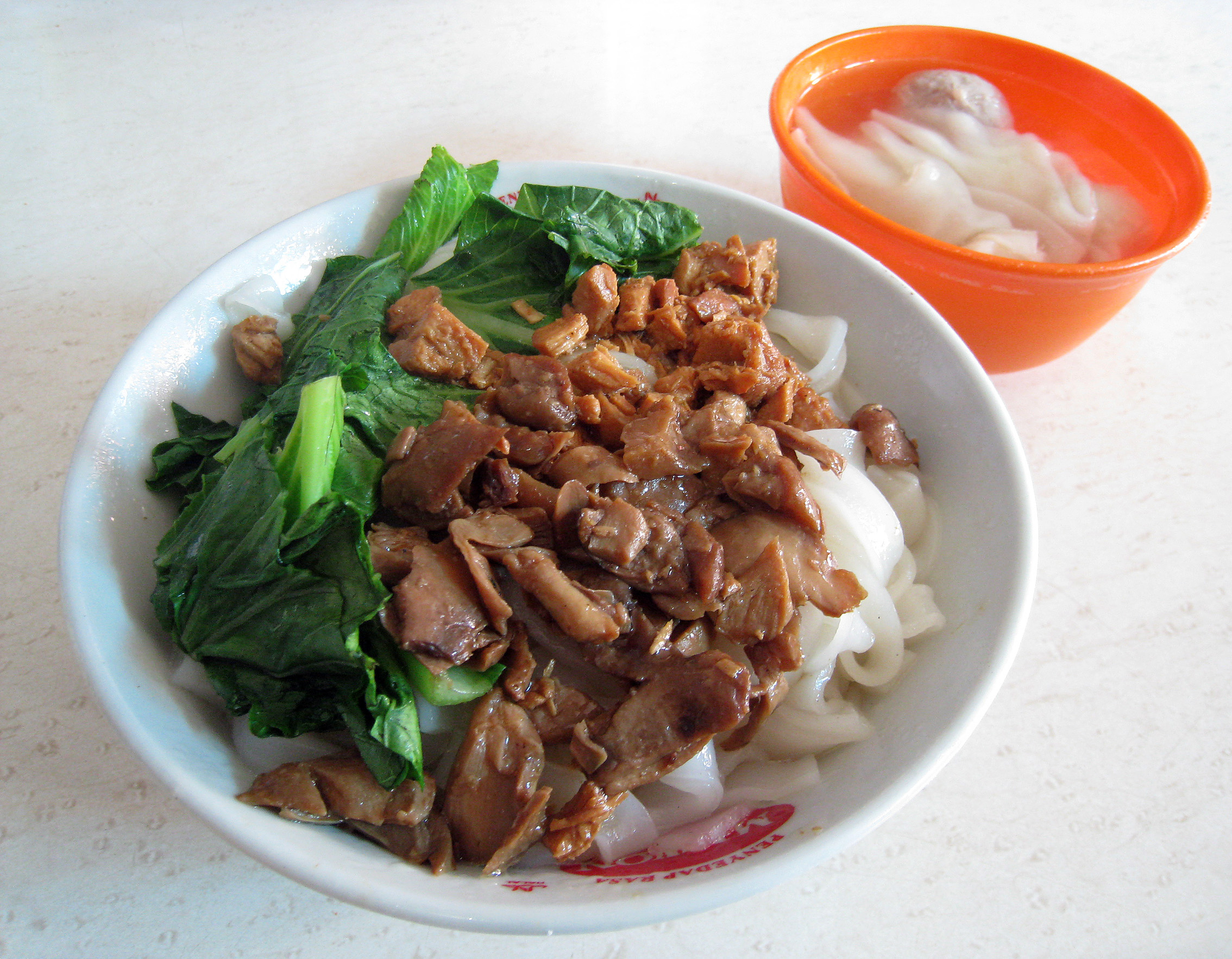 Kwetiau (flat rice noodle) with chicken and mushroom, pangsit (wonton) and bakso (meatball) soup. Taman Solo, Jakarta, Indonesia.